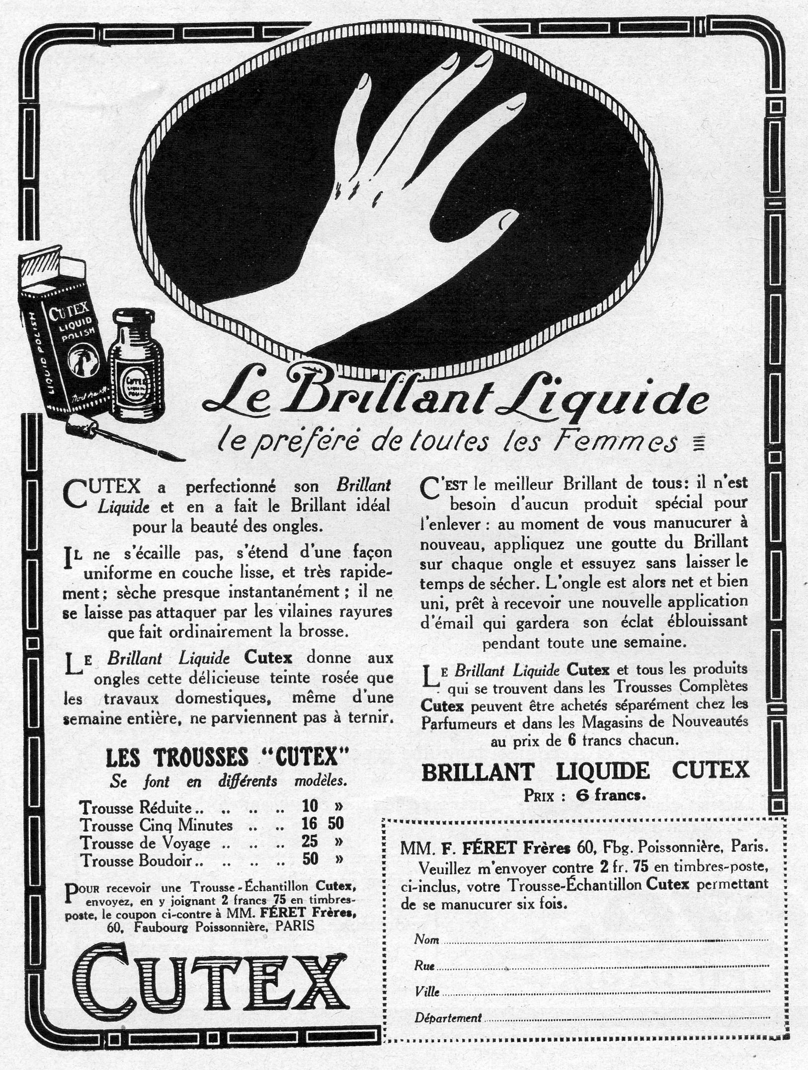 Cutex advertisement of 1924